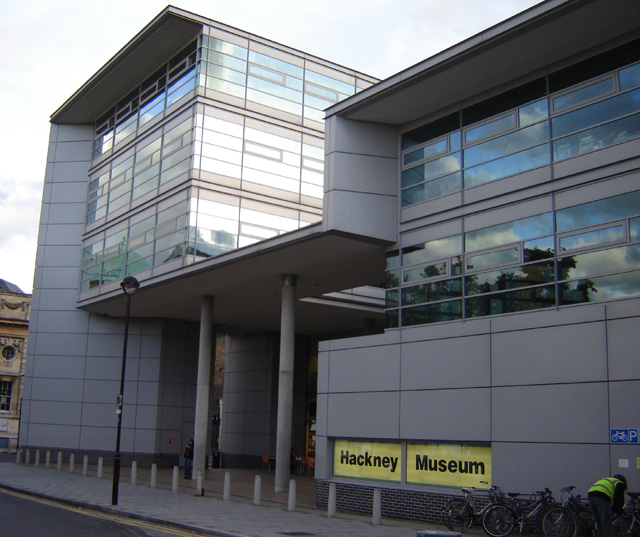 Hackney Technology and Learning Centre (includes Hackney Museum and Central Library), Hackney, London. 20 October 2005. Photographer: Fin Fahey.